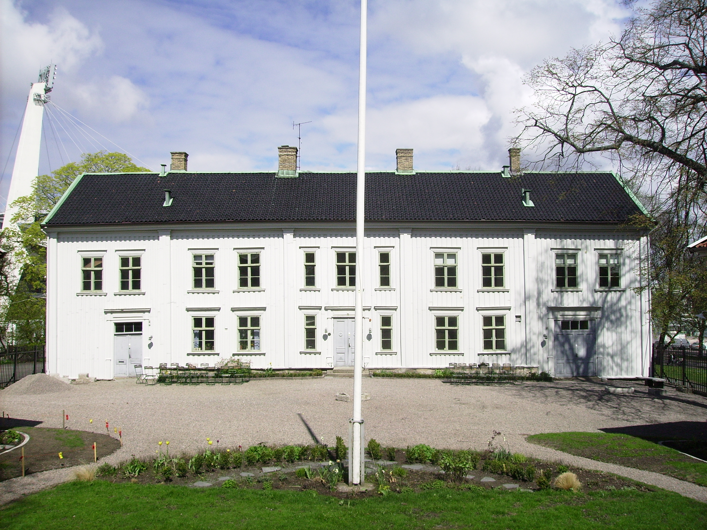 Picture of Stora Katrinelund, Swedish mansion in Göteborg